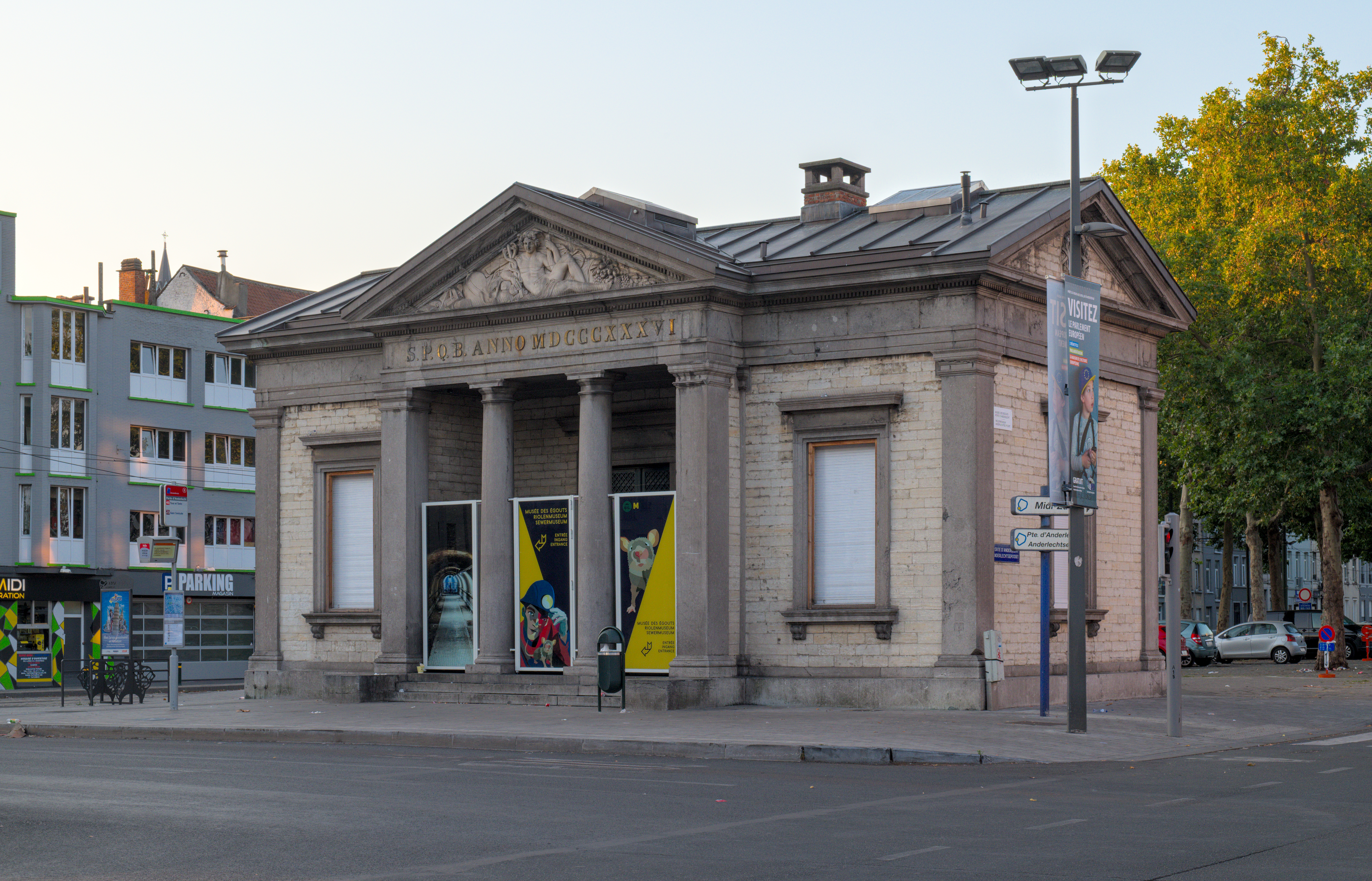 Brussels Sewer Museum - Anderlecht city gate tollbooth, during golden hour This photo of immovable heritage has been taken in the Brussels Capital Region